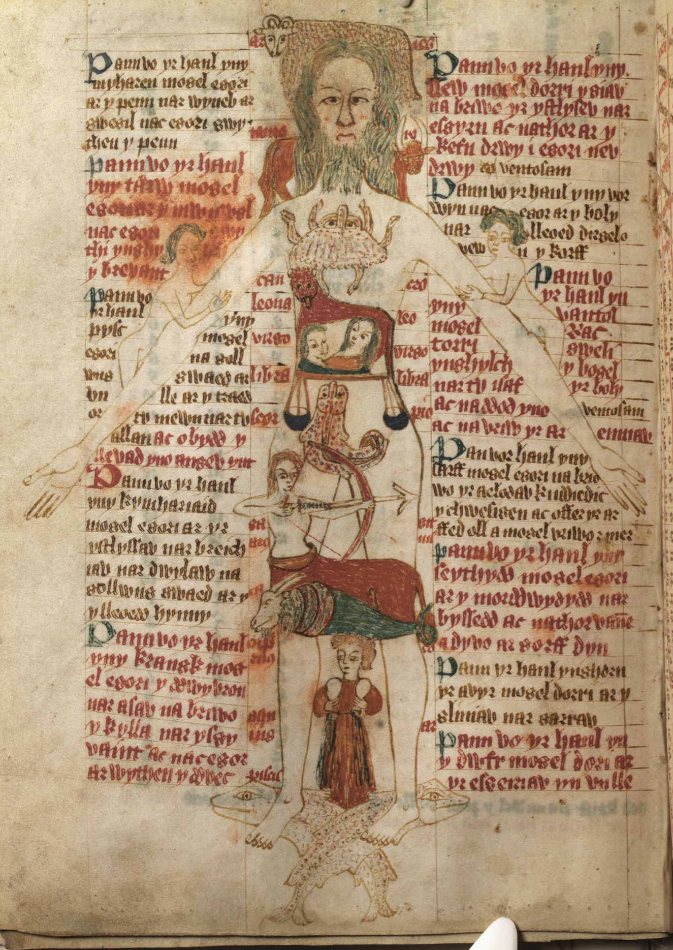 Page 26 of a manuscript written mostly by Gutun Owain in the late 1400s. The diagram on this page is referred to as "The Zodiac Man". This part of the manuscript contains an assortment of texts about astrology and medicine. This combination was common in manuscripts all over Europe by the fifteenth century. To people in the Middle Ages there was close link between the time of year, the moon's seasons and other astrological factors and health and medical treatment, as they would affect the body's "humours".